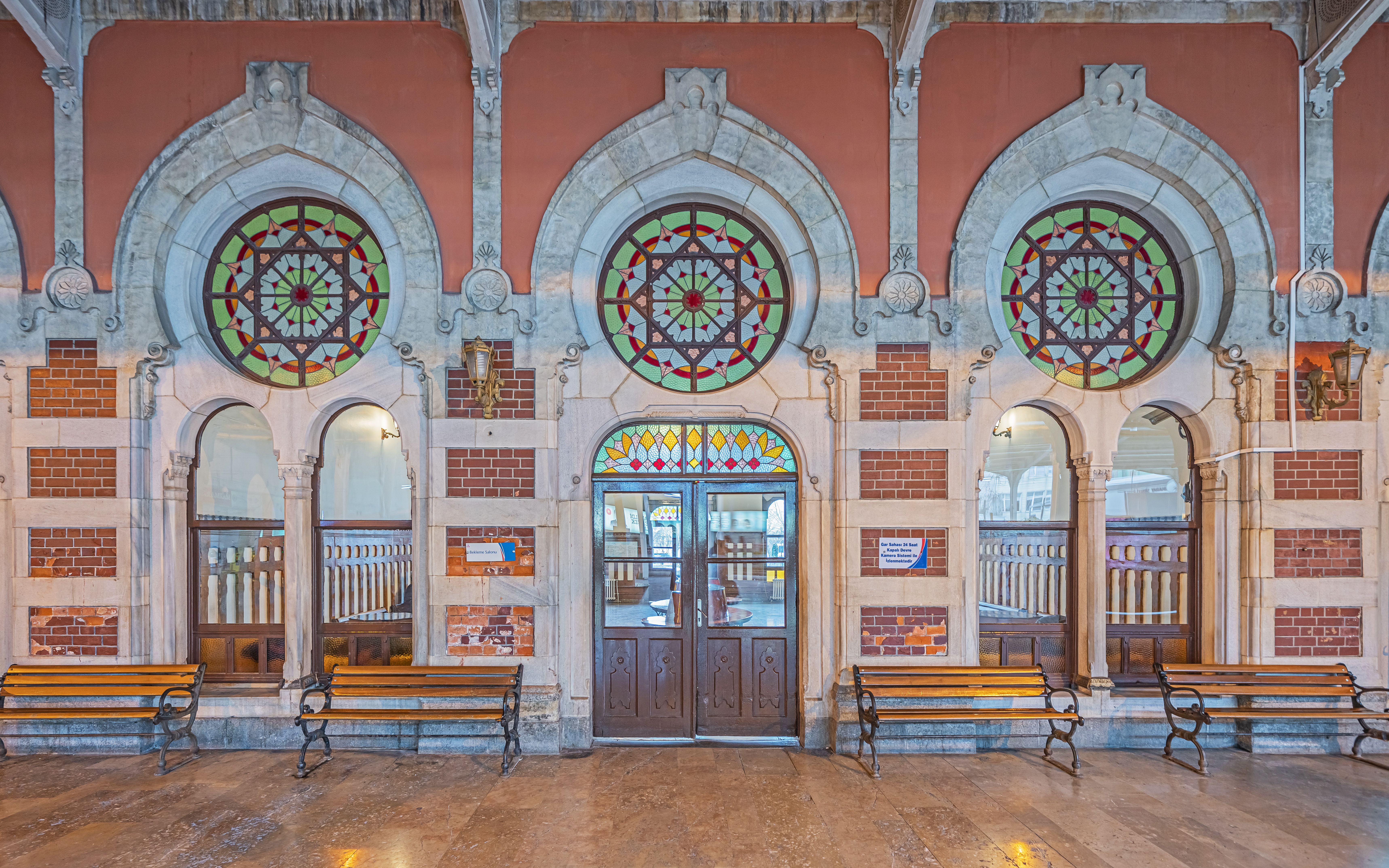 Interior of the Sirkeci railway terminal in Istanbul, Turkey